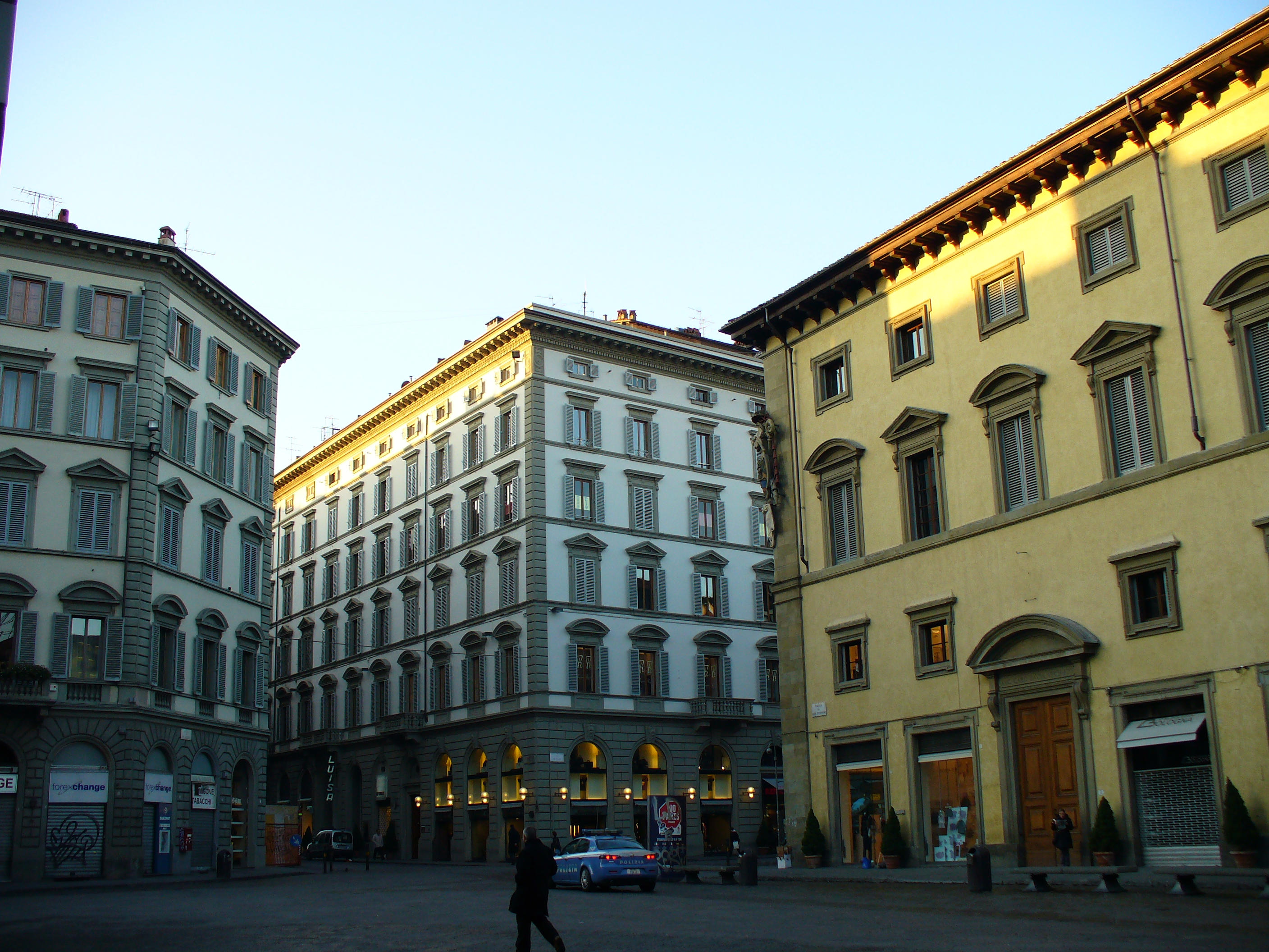 Piazza San Giovanni (Florence)